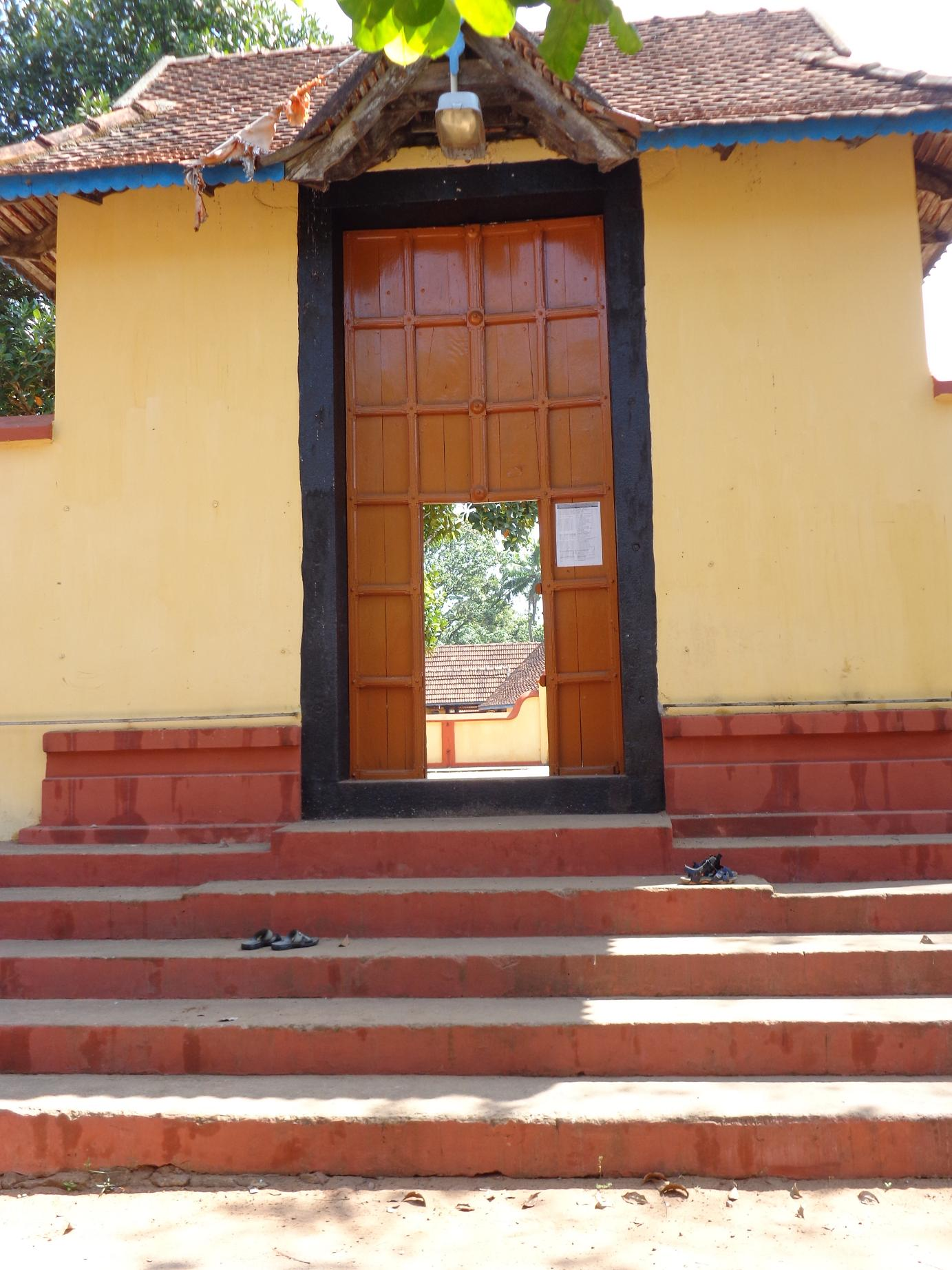 the gate of mattam narasimhaswami temple, mavelikara